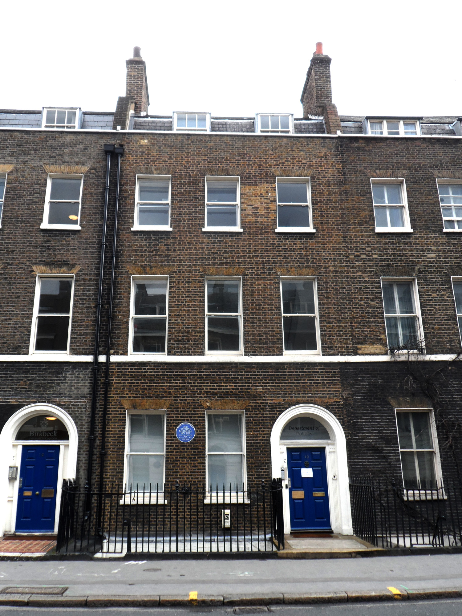 Lady Ottoline Morrell 1873-1938 literary hostess and patron of the arts lived here - 10 Gower Street, Bloomsbury, WC1E 6DP